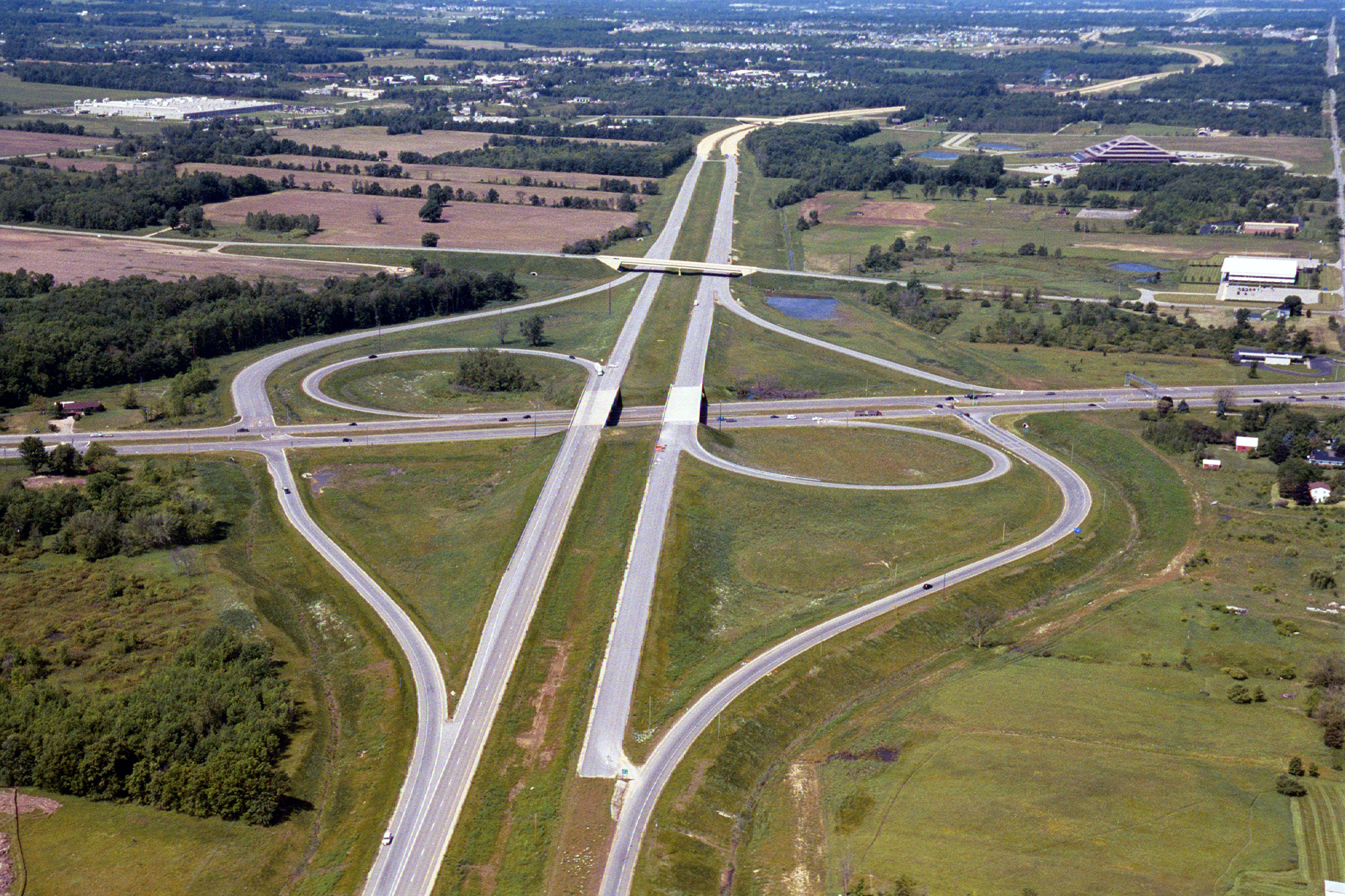 Aerial photo of the M-6/M-37 interchange in Caledonia, Michigan under construction